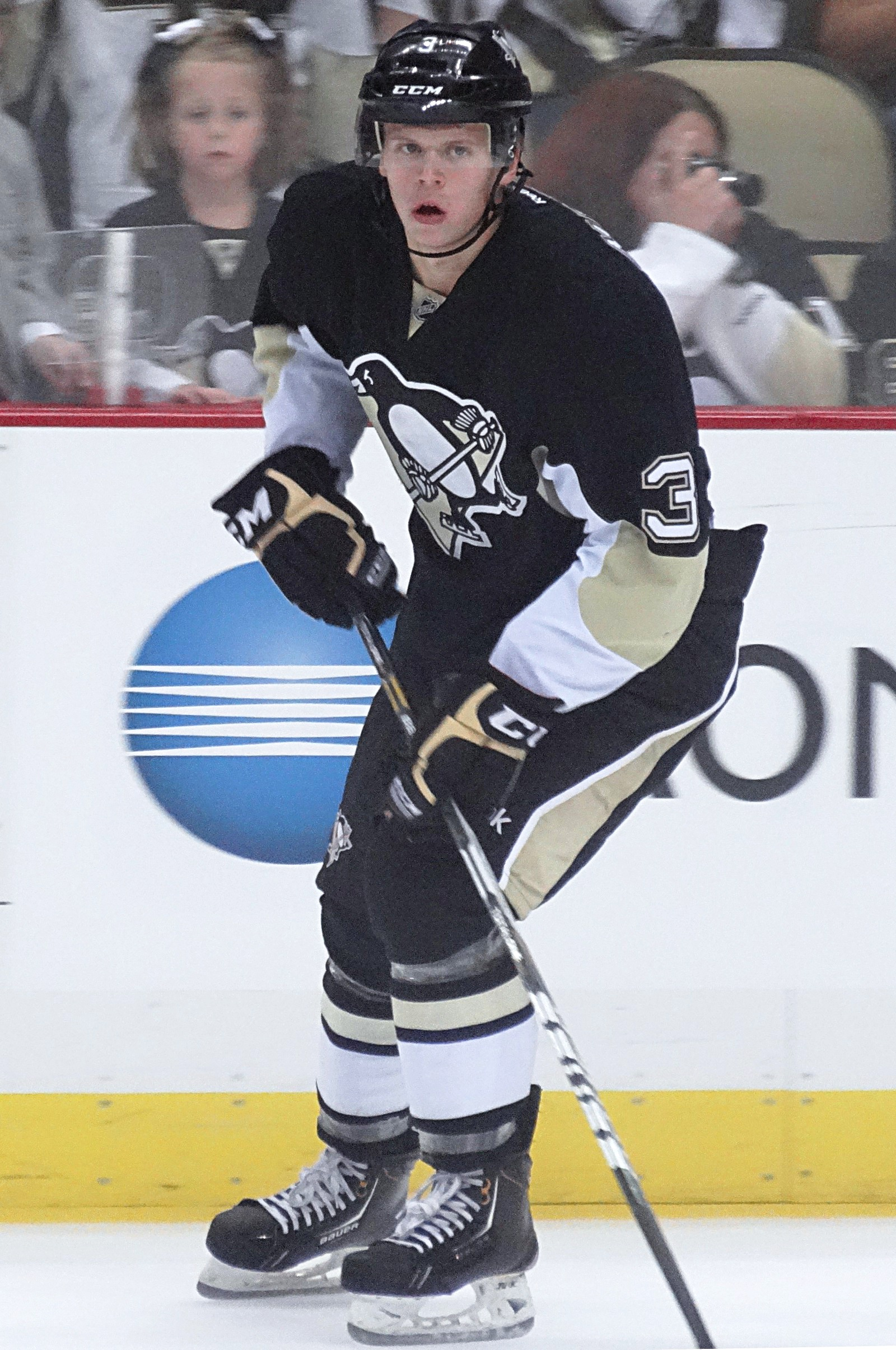 Pittsburgh Penguins defenseman Olli Määttä skates in his second NHL game, October 5, 2013 against the Buffalo Sabres at Consol Energy Center in Pittsburgh, PA.